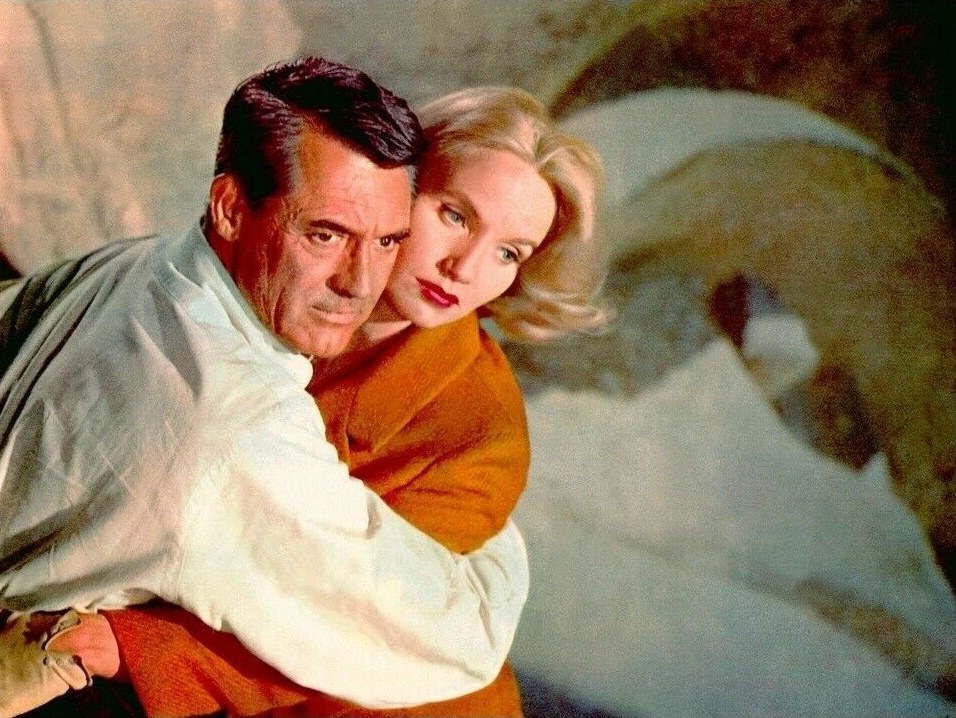 Photo of Cary Grant & Eva Marie Saint from the film North by Northwest (1959). See also film still. No copyright notice.